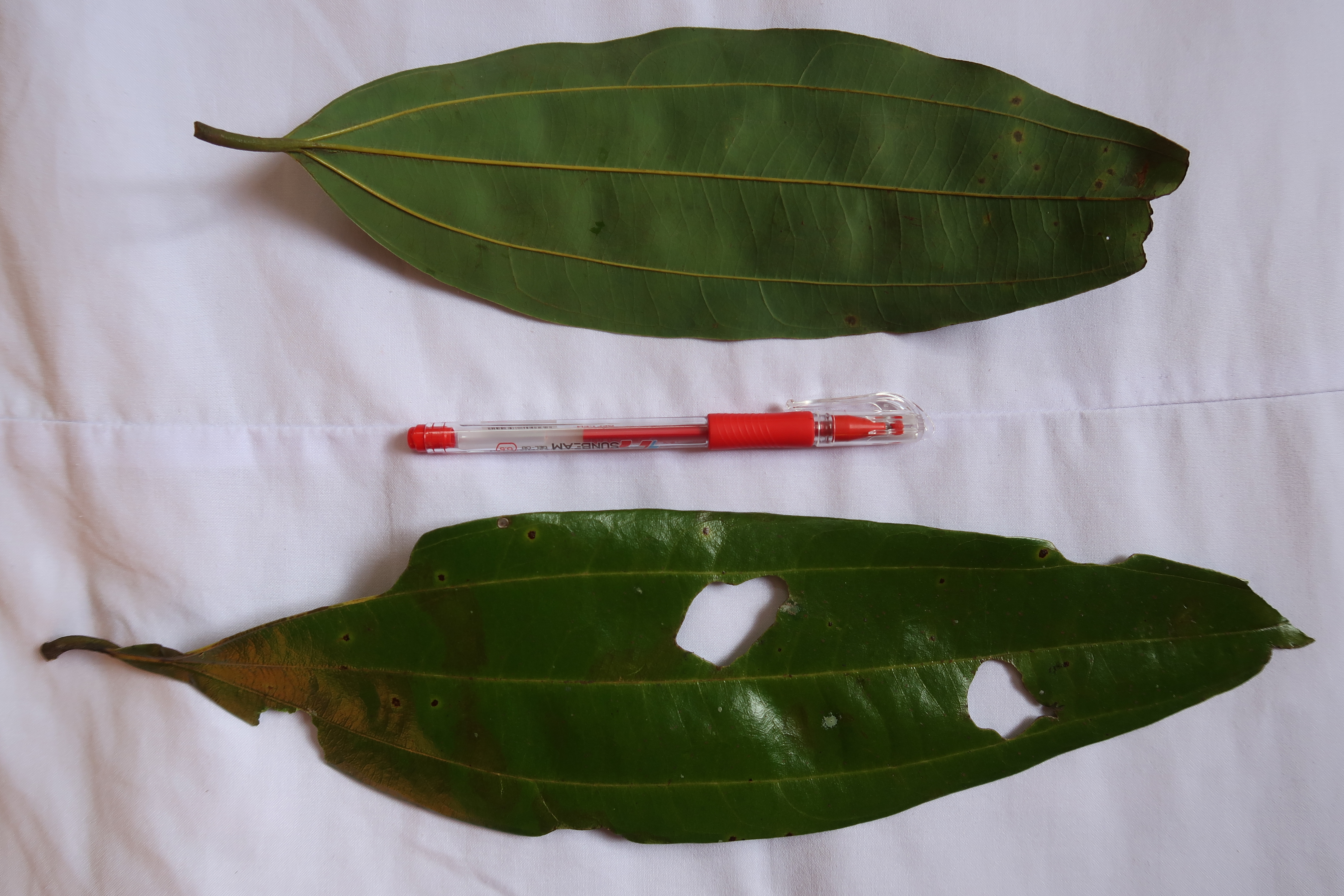 Leaves of cinnamon trees collected in Cao Sơn hamlet, Trà Sơn Commune, Bắc Trà My District, Quảng Nam Province, Vietnam